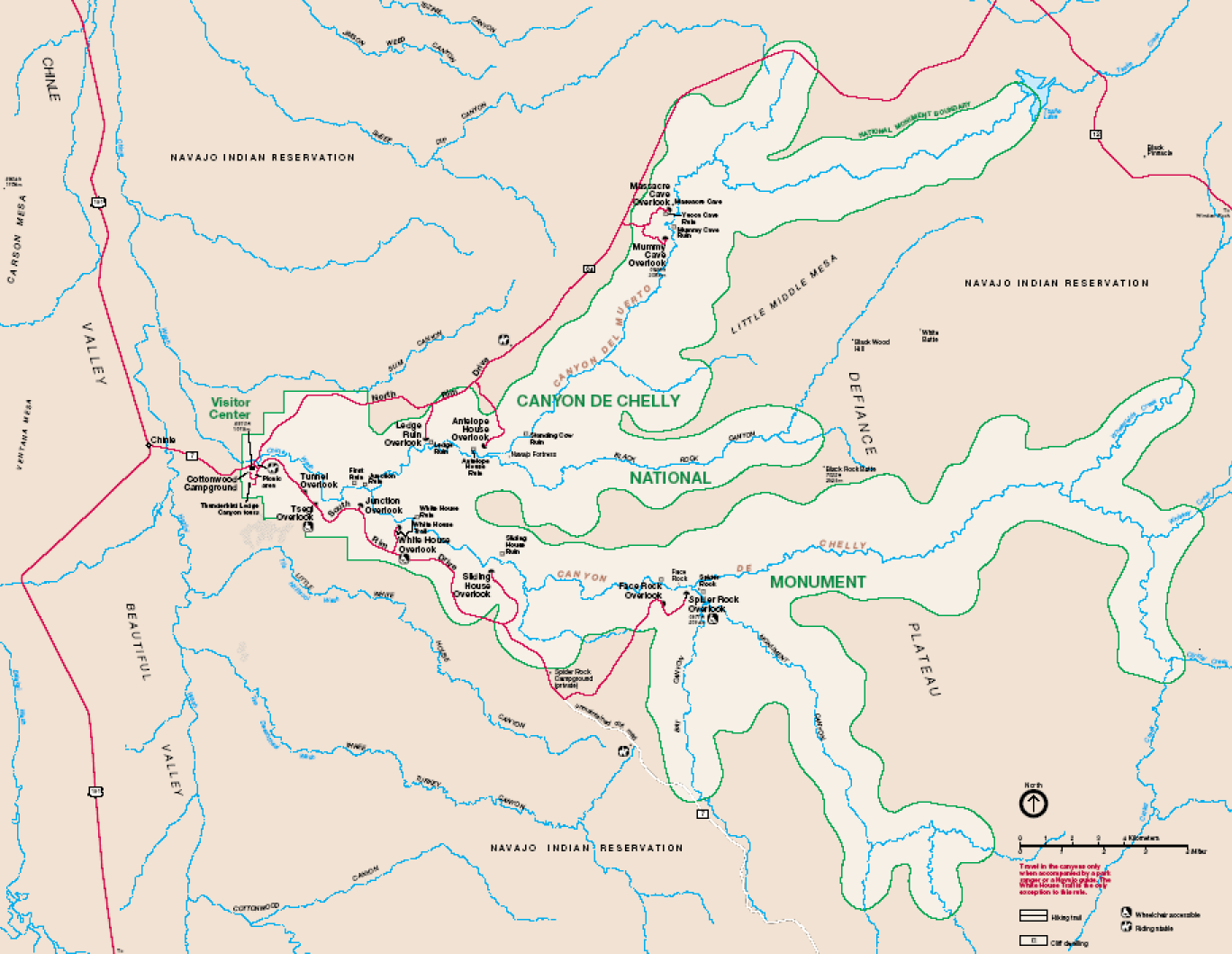 Karte des Canyon de Chelly National Monument